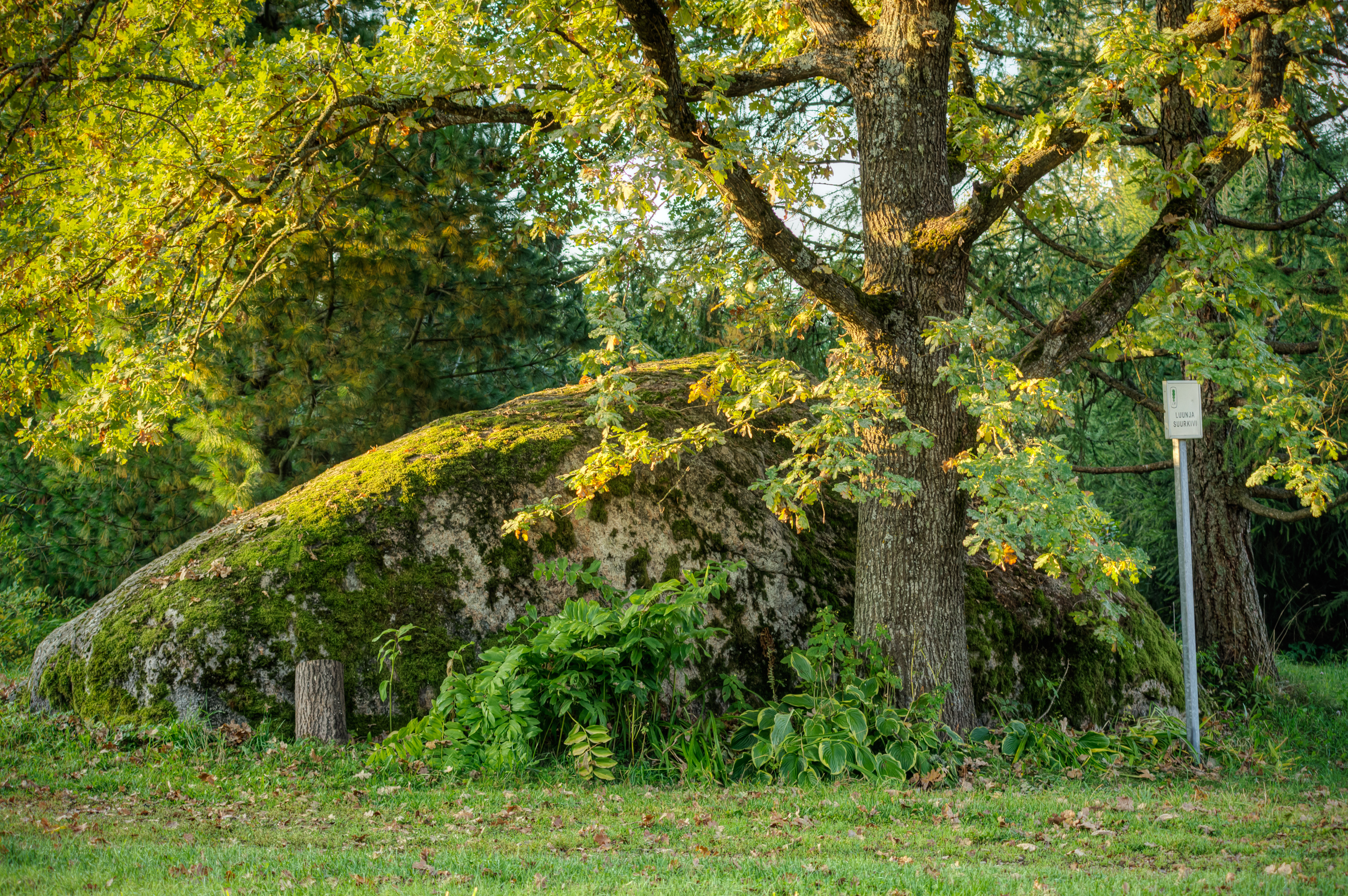 Erratic boulder "Luunja Suurkivi"